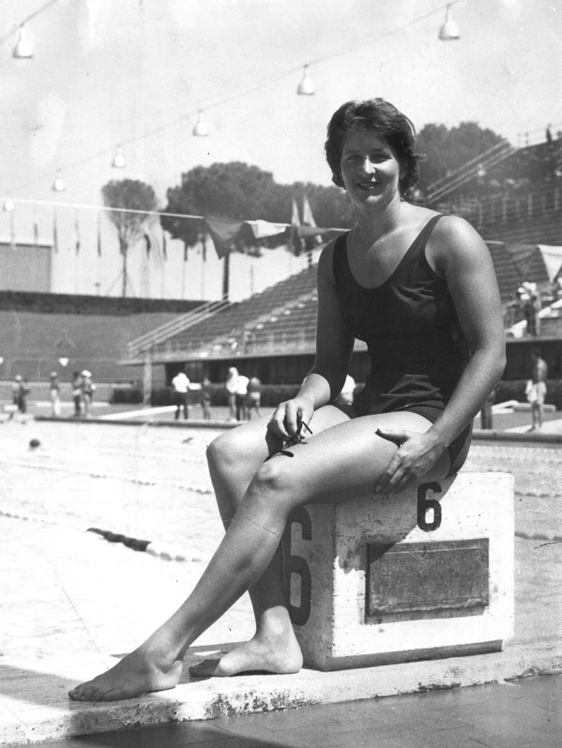 Dawn Fraser at the Rome Olympics